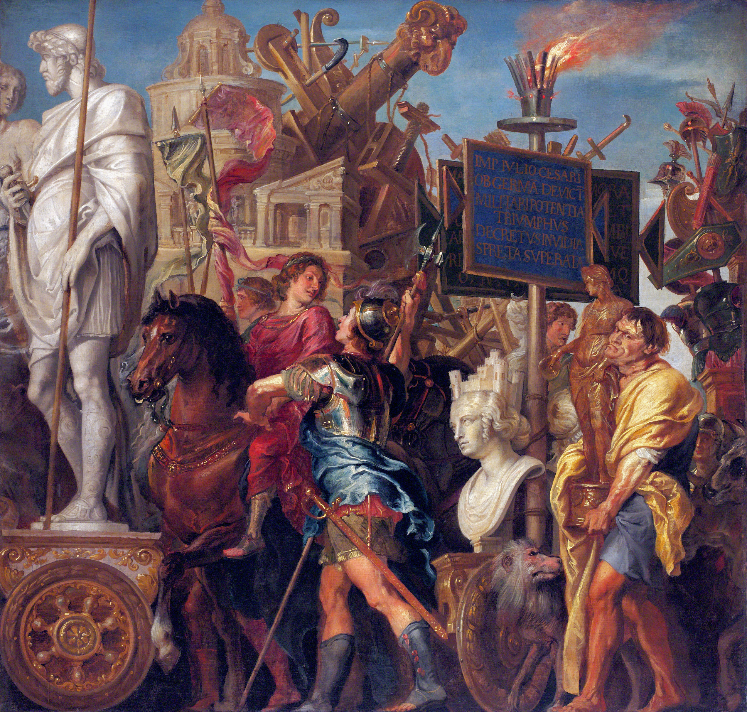 Caesar’s Triumph (after part No. II and IX in the cycle painted by Andrea Mantegna) oil on wood 87 × 91 cm